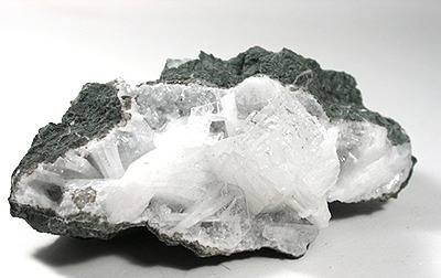 Yugawaralite Locality: Jalgaon District, Maharashtra, India (Locality at ) Size: miniature, 3.7 x 2.7 x 2.5 cm Yugawaralite BRILLIANTLY lustrous, clear and white, SHARP crystals of this rare species , on matrix! These are superb examples from a new find that is bringing these once ultra-pricey rarities down to earth in price. In 15 years of looking, i have NEVER SEEN specimens so rich and so cheap of this species. Despite all the tonnes of indian zeolites mined, these are few and far between, and considered extremely rare . BETTER IN PERSON as they are hard to photograph, being so clear and sparkly!